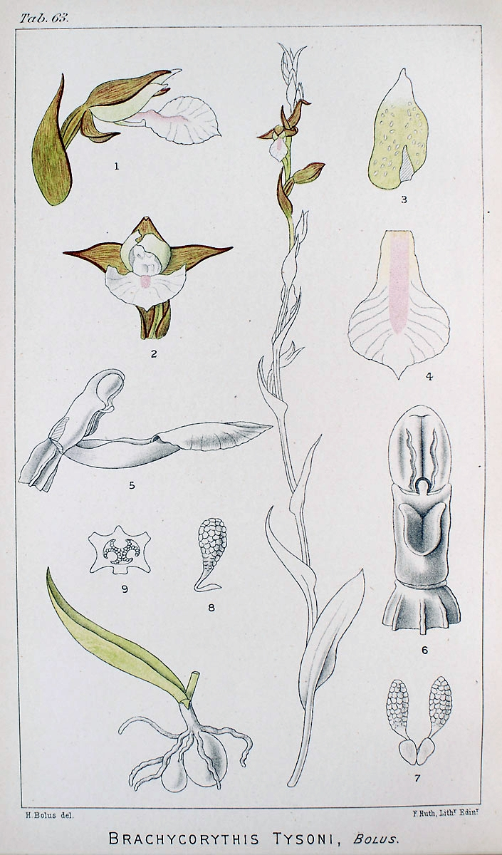 Illustration of Neobolusia tysonii from Harry Bolus Icones Orchidearum Austro-Africanarum